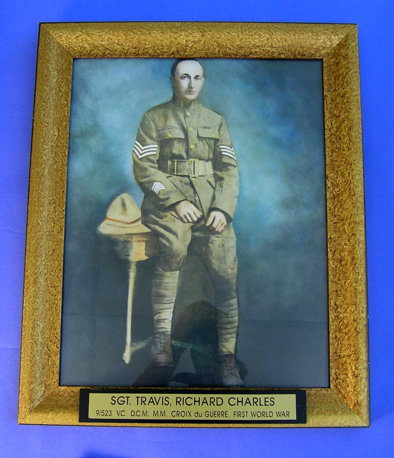 Framed photographic portait of Sergeant Richard Travis VC, WW1